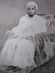 Syedna Mohammed Burhanuddin, the 52nd Dai al-Mutlaq, poses for a portrait after being appointed Mazoon al-Dawat (second-in-command) and a successor to the office of Dai al-Mutlaq by his father and 51st Dai al-Mutlaq, Syedna Taher Saifuddin in Surat circa 1934